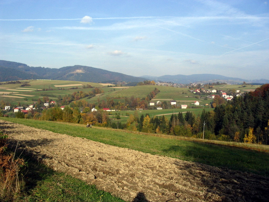 Bukovec village